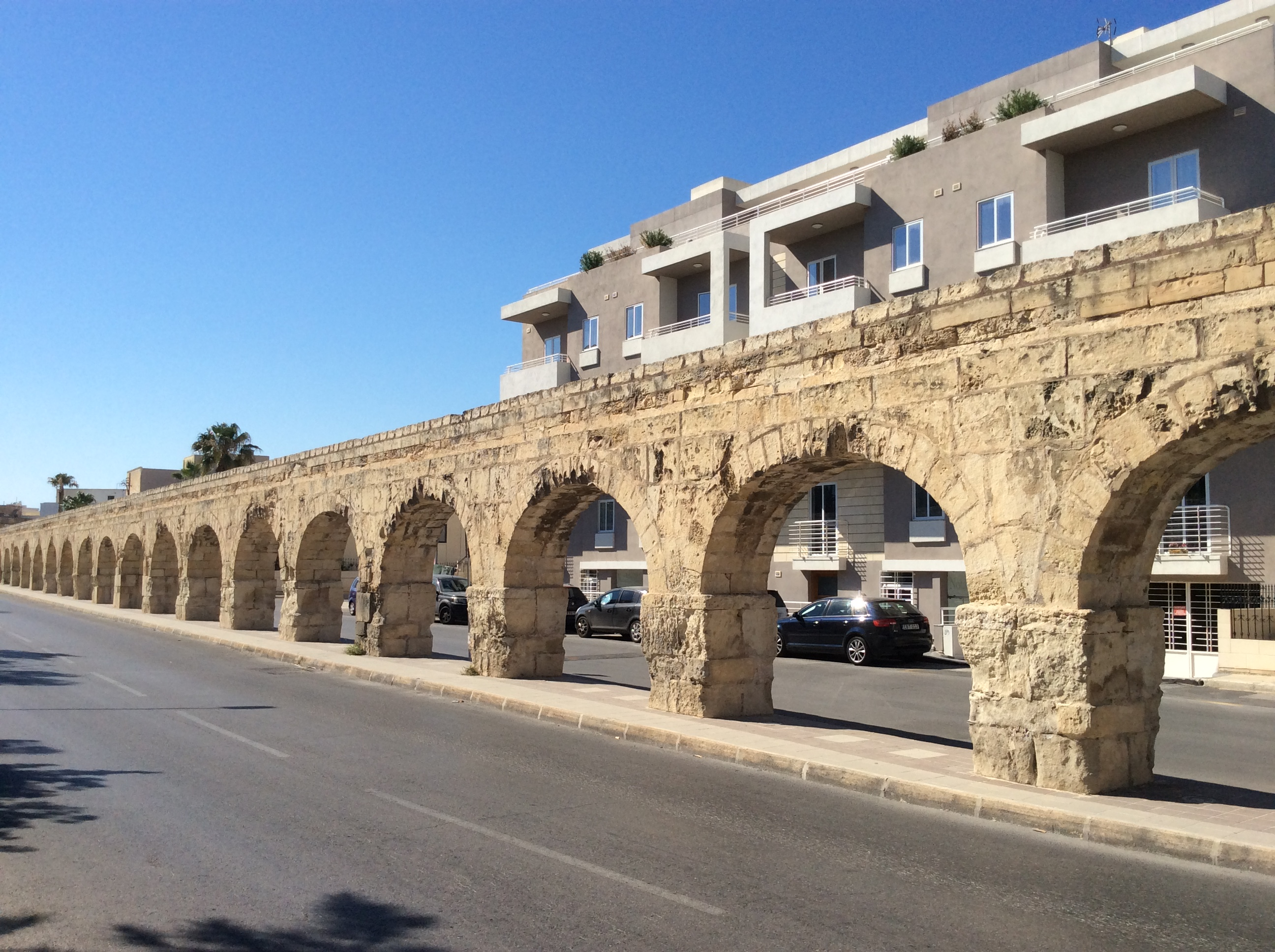 Aquaduct Mriehel, Malta